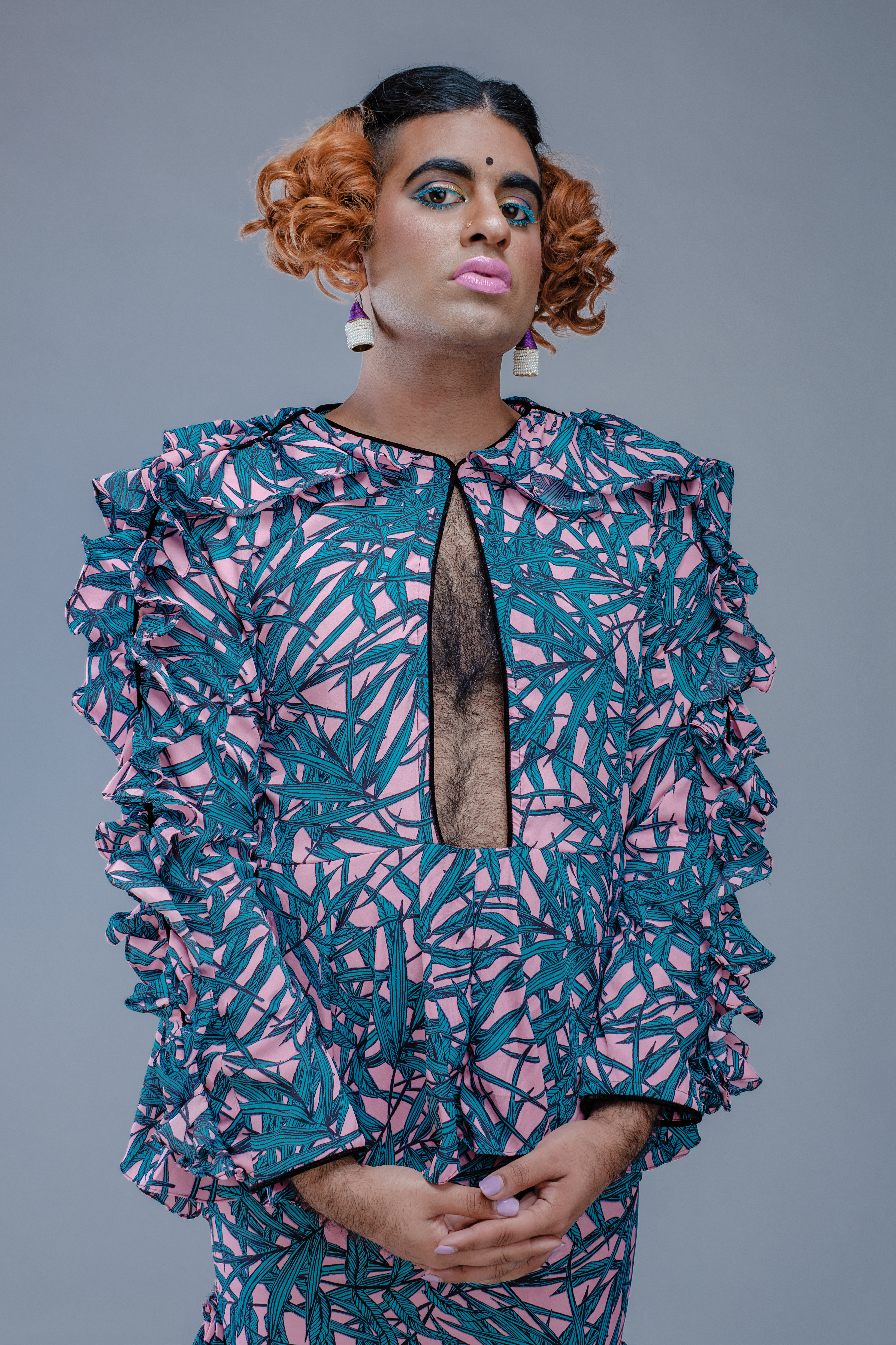 Transfemme Gender-nonconforming Performance artist Alok Vaid-Menon photographed by Abhinav Anguria